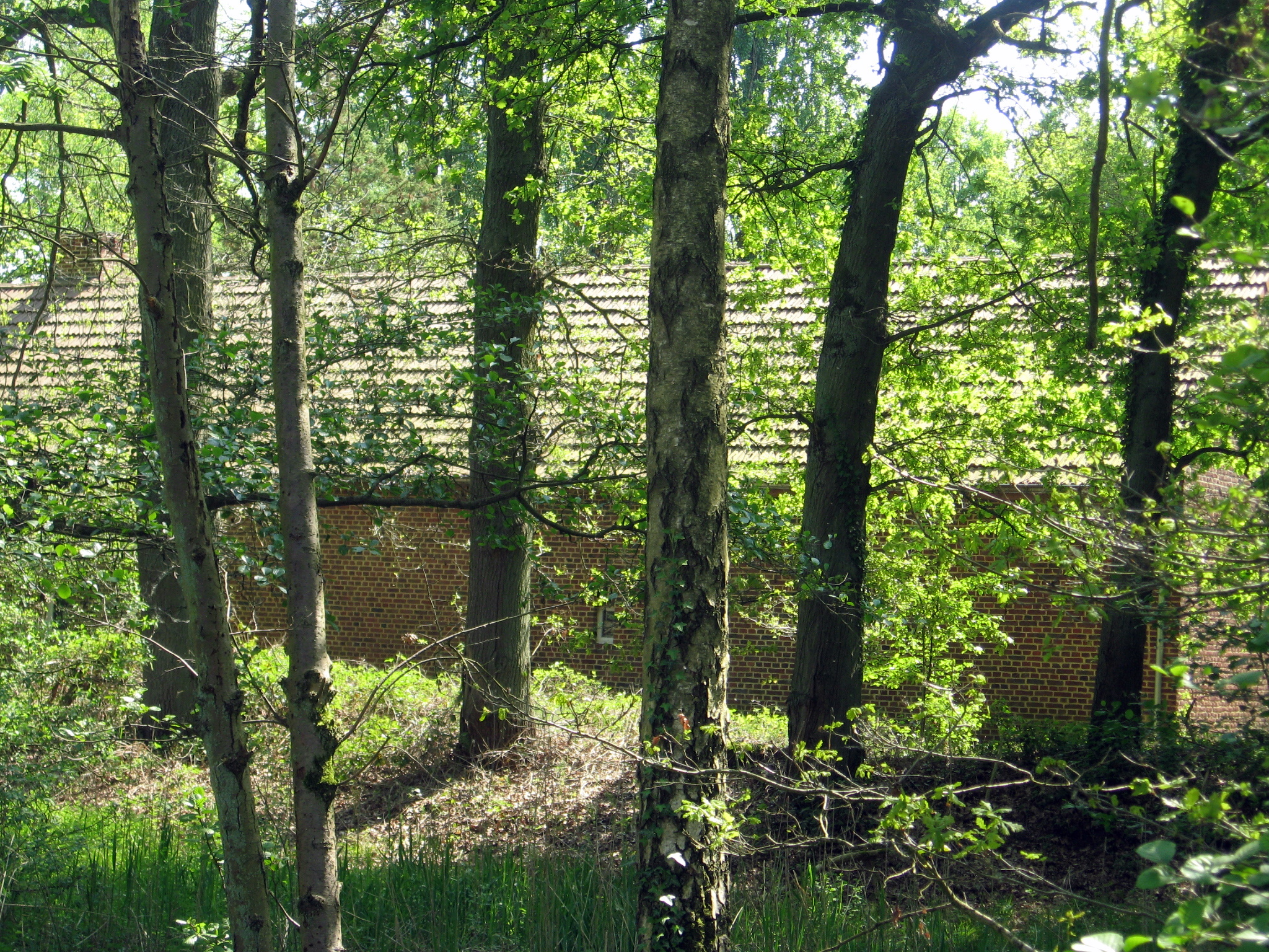 Vranckenschans with earth wall in Zonhoven, Limburg, Belgium